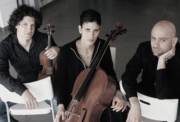 Trio Mondrian Press Photo